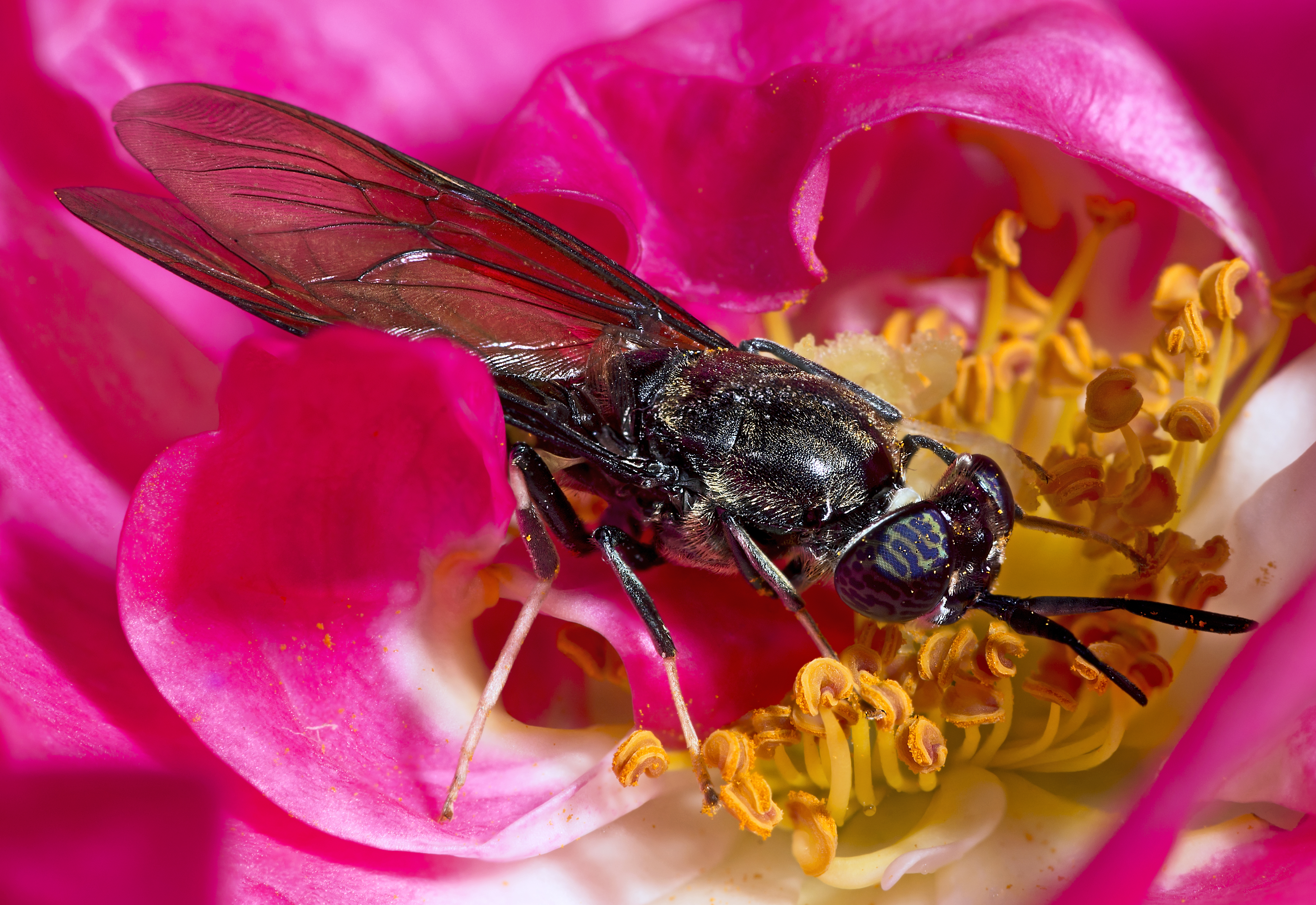 Black soldier fly, on a rose. Size : 18 mm